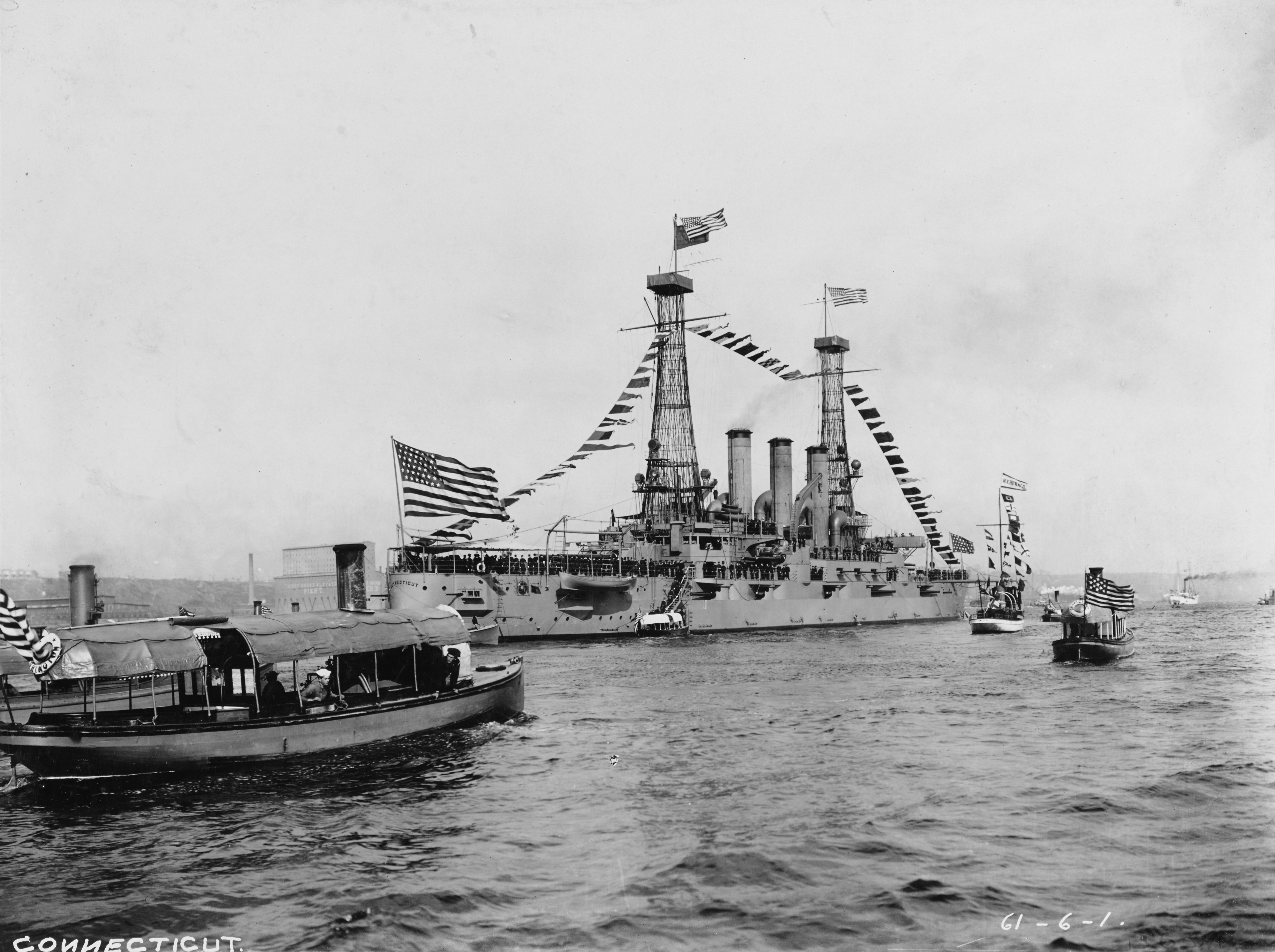 (Battleship # 18) Dressed with flags while at anchor in the Hudson River, off New York City, prior to World War I. The occasion may be the Fleet Review of October 1911. Steam launch at left is from USS Washington (Armored Cruiser # 11). U.S. Naval History and Heritage Command Photograph.